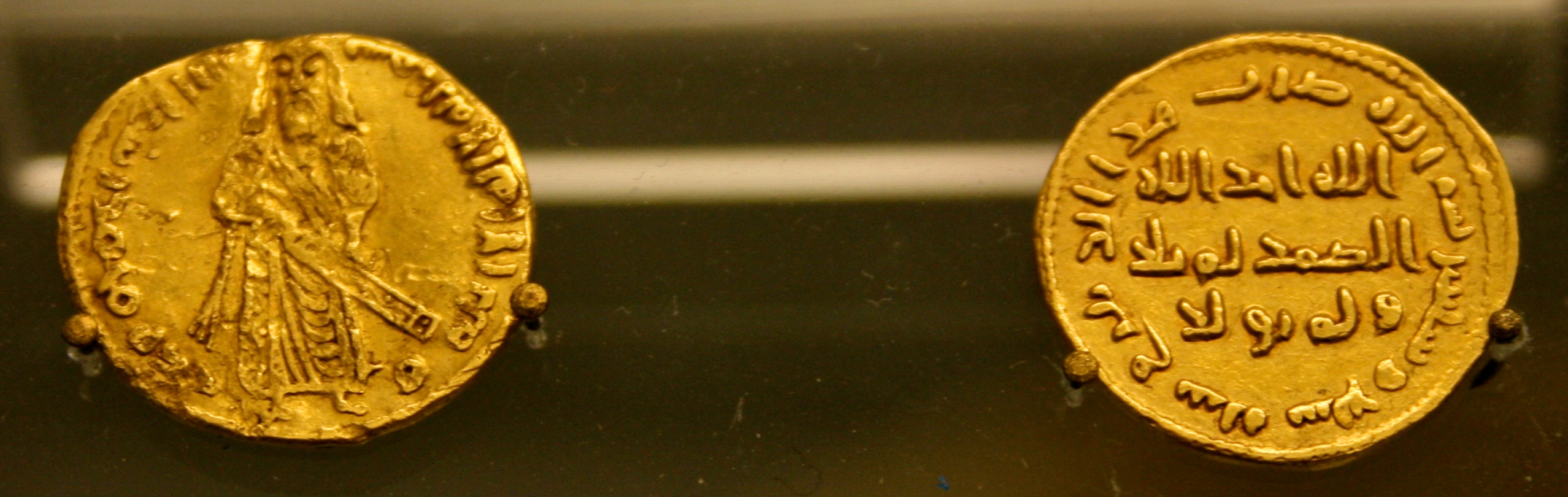 The reforms of 'Abd al-Malik Gold dinars, AH 76, 77/695-697. Object 46 out of 100. In the British Museum.